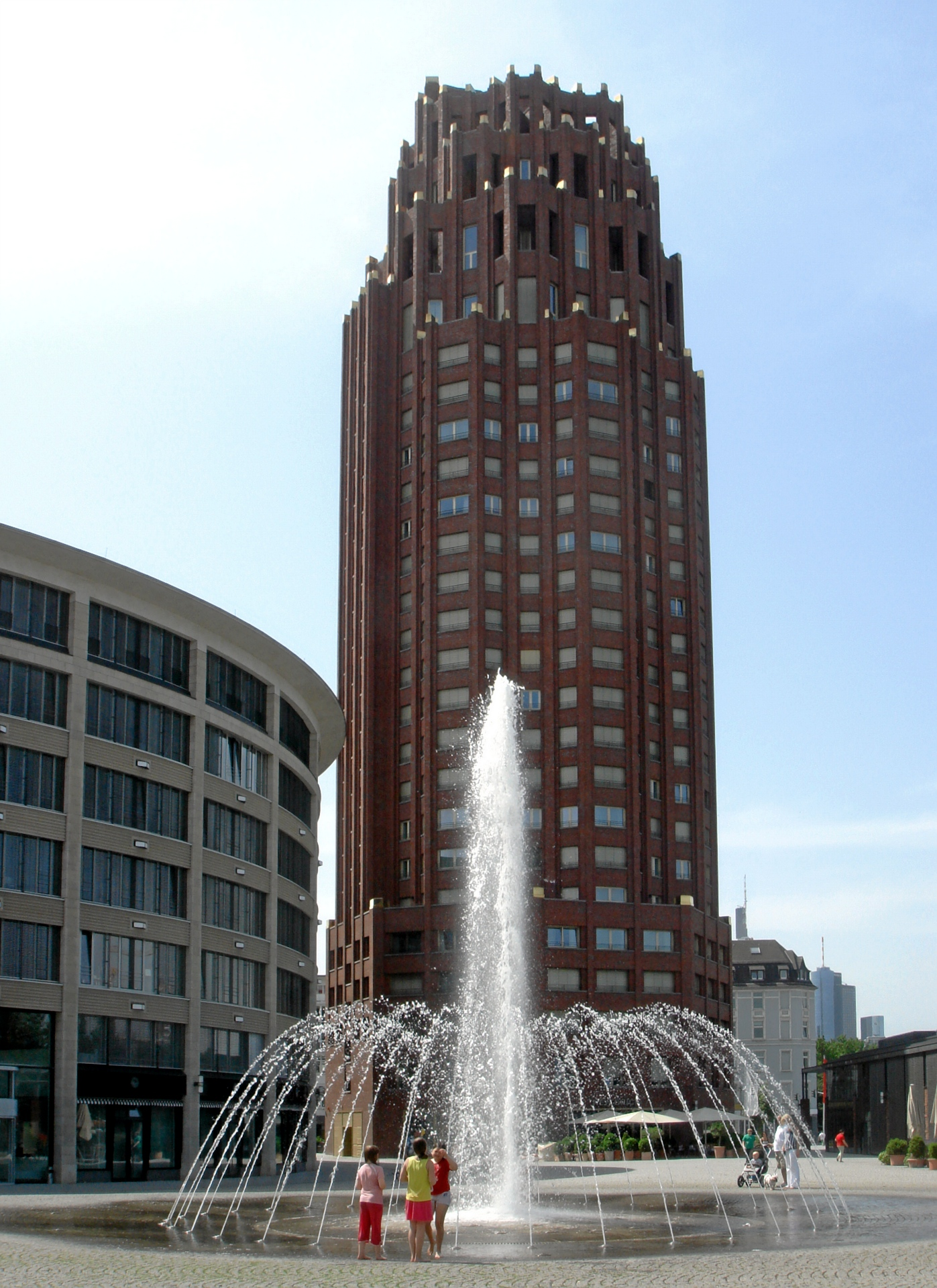 Main Plaza, Frankfurt, Germany, east side